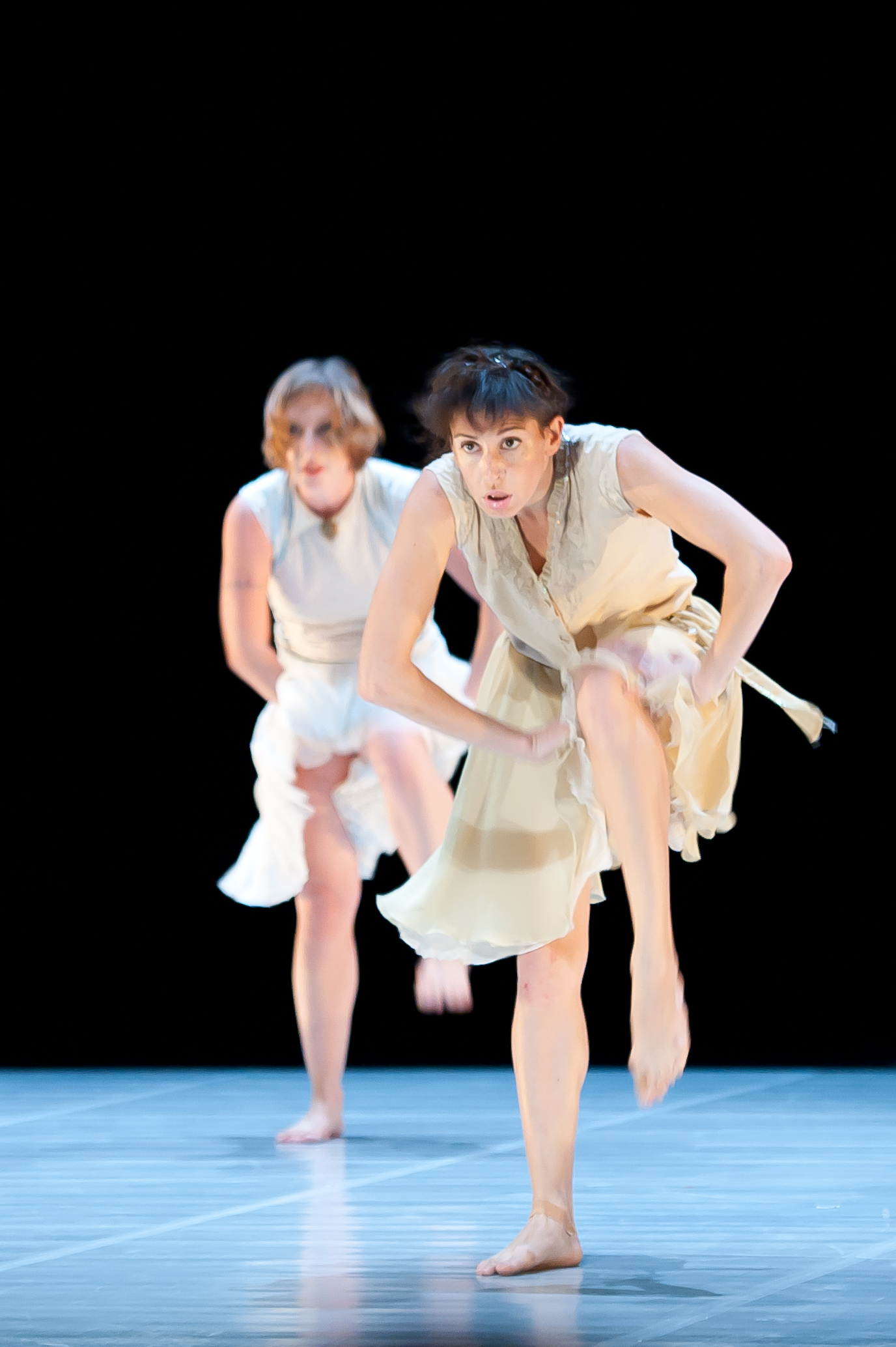 Inbal Pinto in "Rushes", on stage at "Suzanne Dellal"